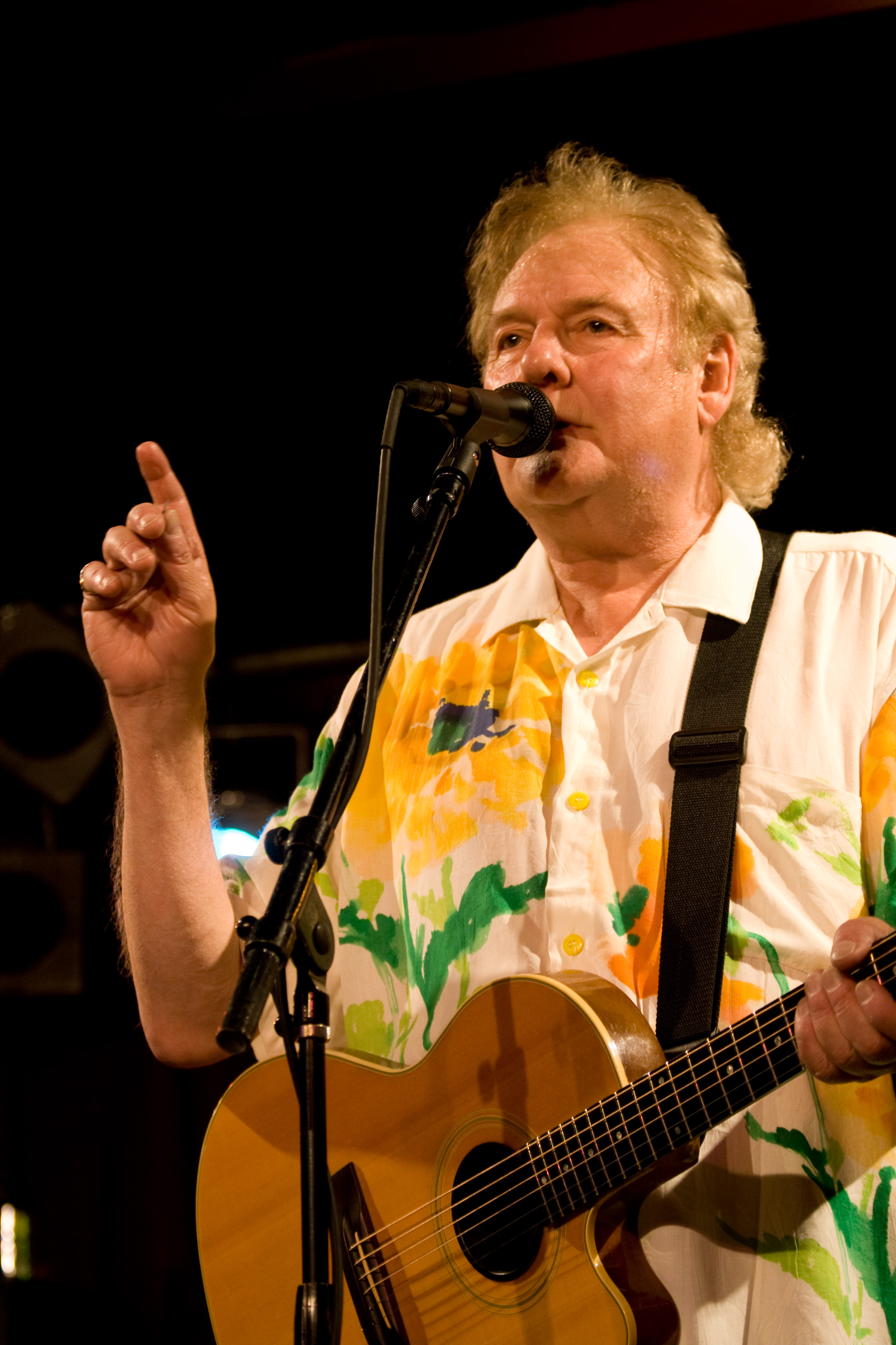 David Cousins onstage at BB Kings in NYC with the Strawbs, June 11, 2008.